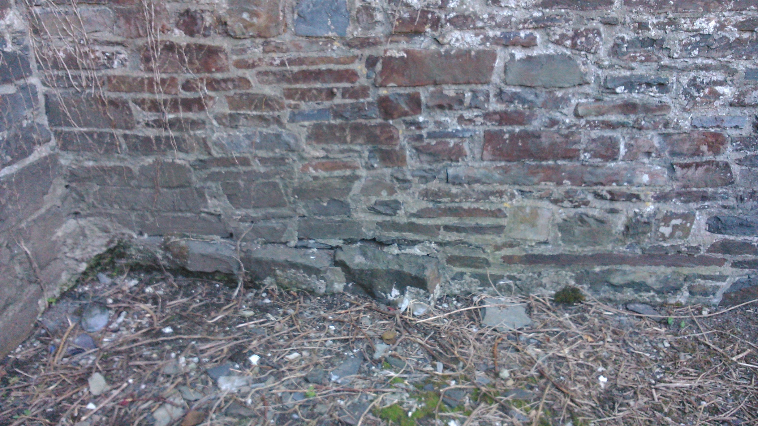 Nave wall by north transept, north west side, showing base of possible structure. St Padarn's Church, Llanbadarn Fawr